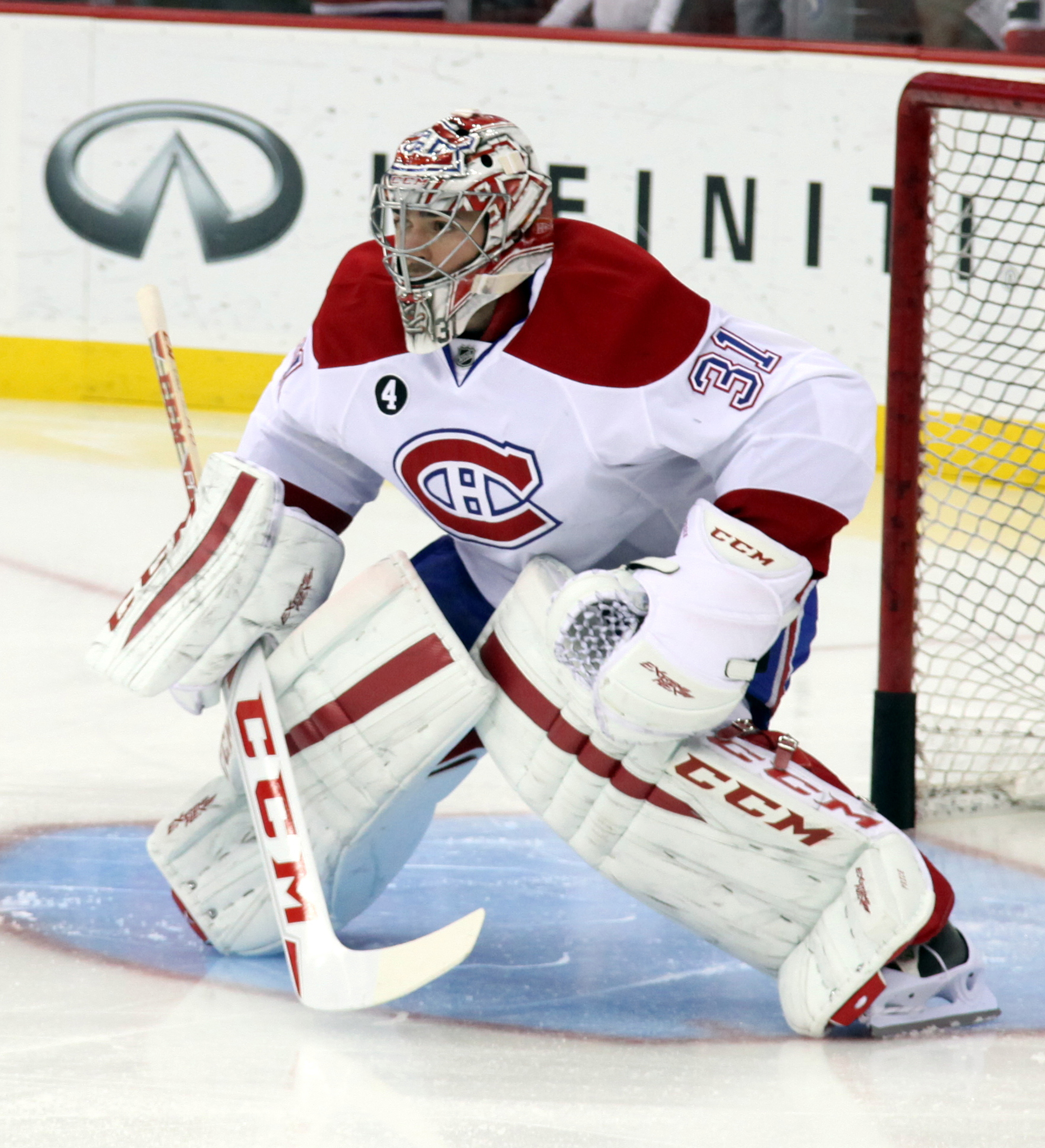 Carey Price in January 2015.